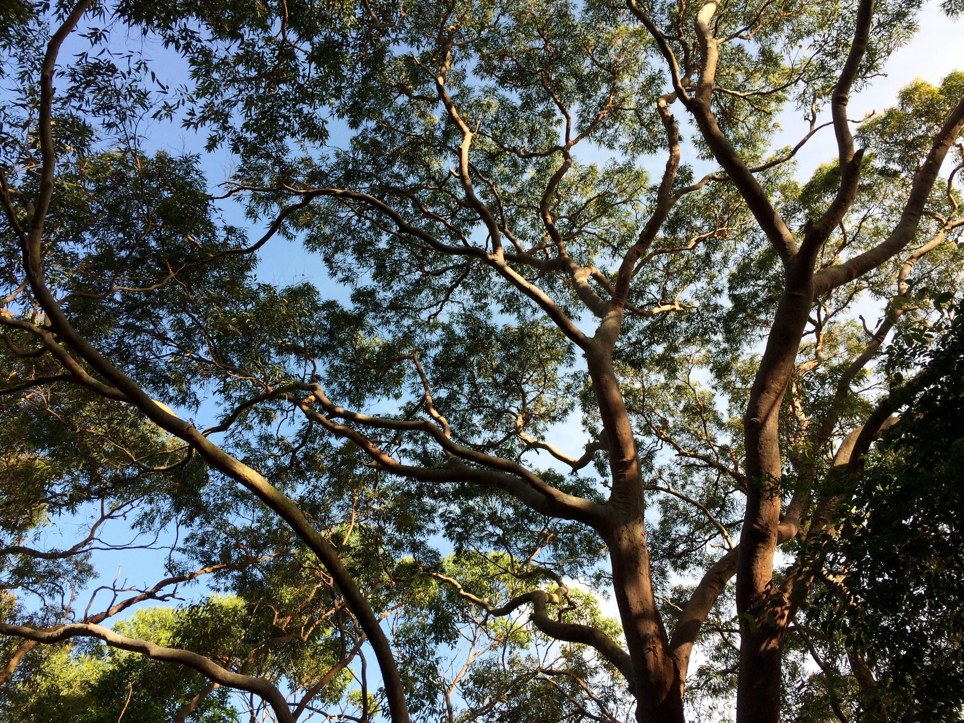 Spreading, twisting habit of angophora costata upper branches (Smooth-barked apple)